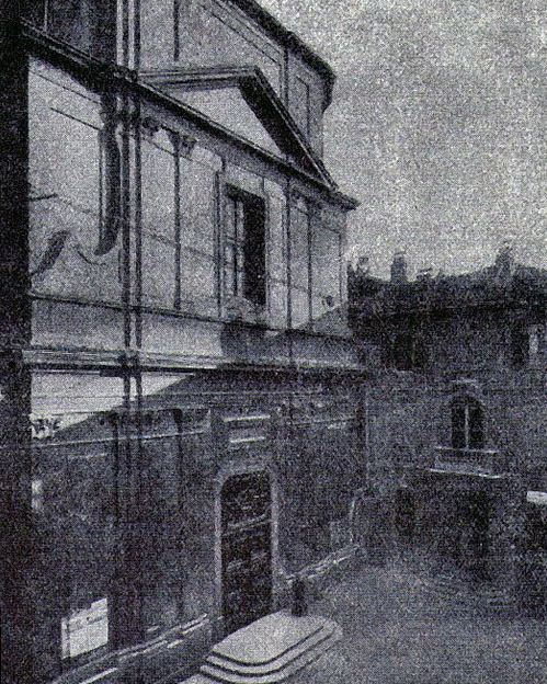 Facade of the old church of Santa Maria Segreta, Milan, demolished in 1910